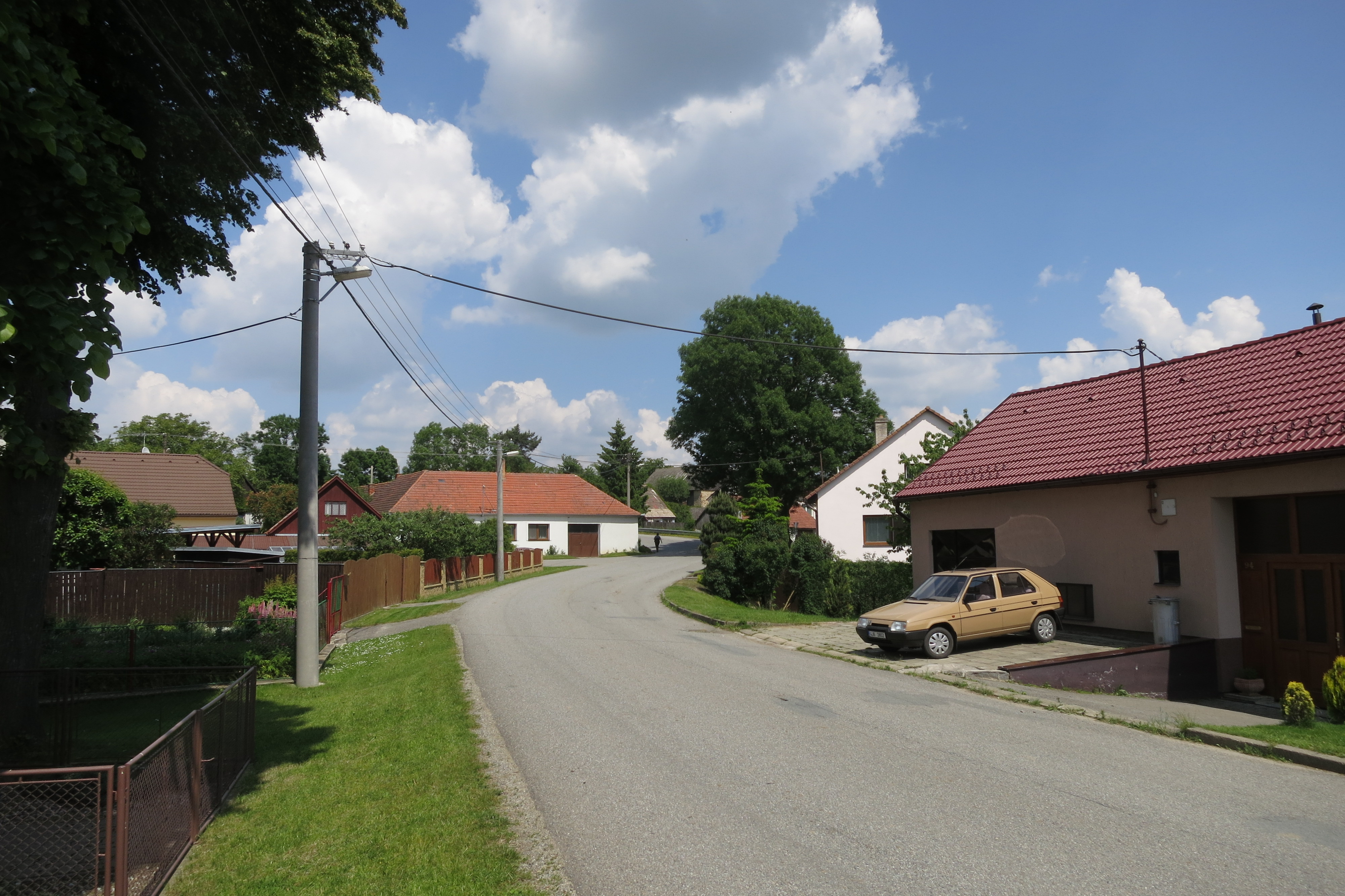 Center of Římov, Třebíč District.